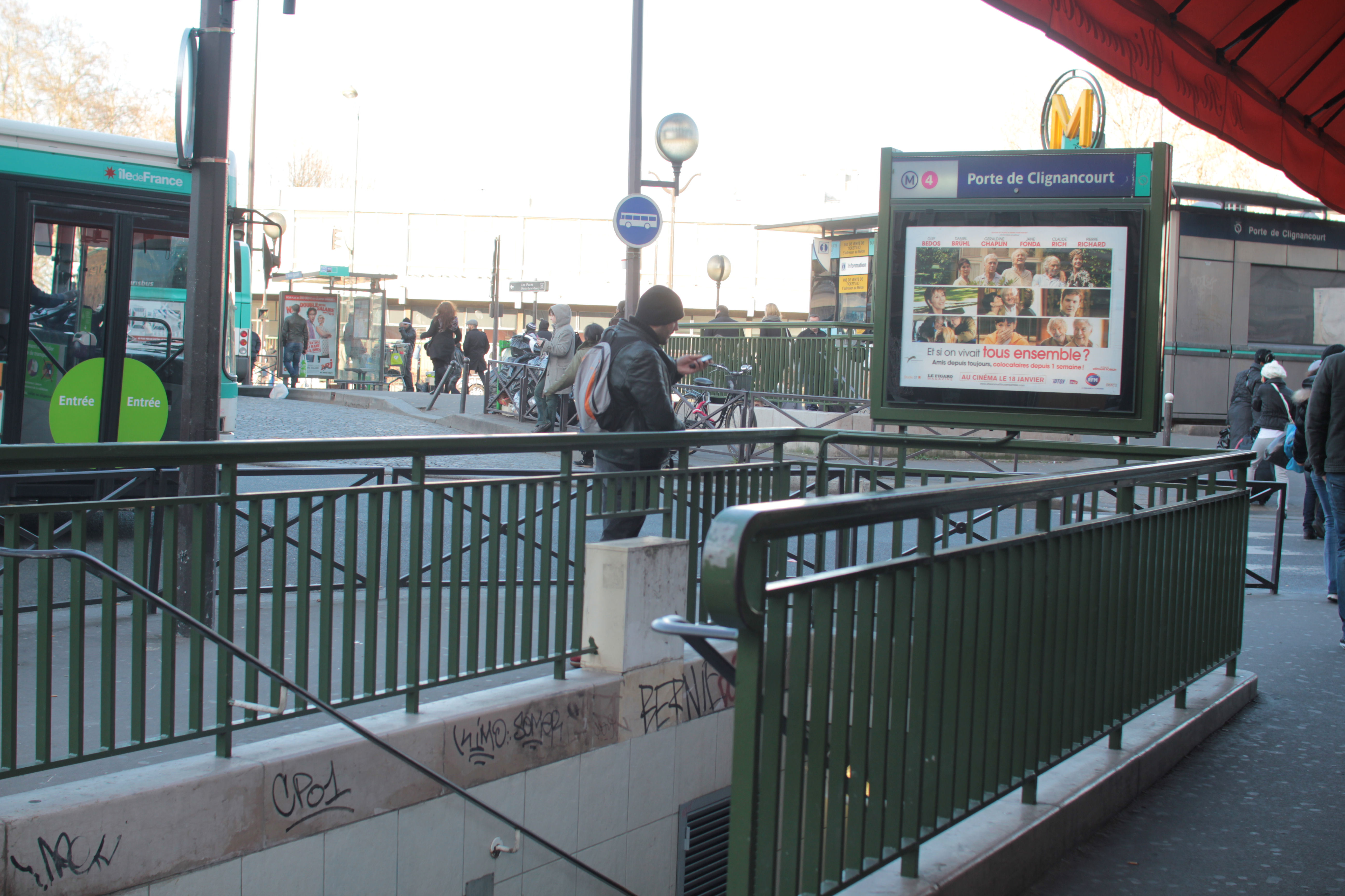 Entrance of the metrostation Porte de Clignancourt on Paris metro line 4, on the Boulevard Ornano